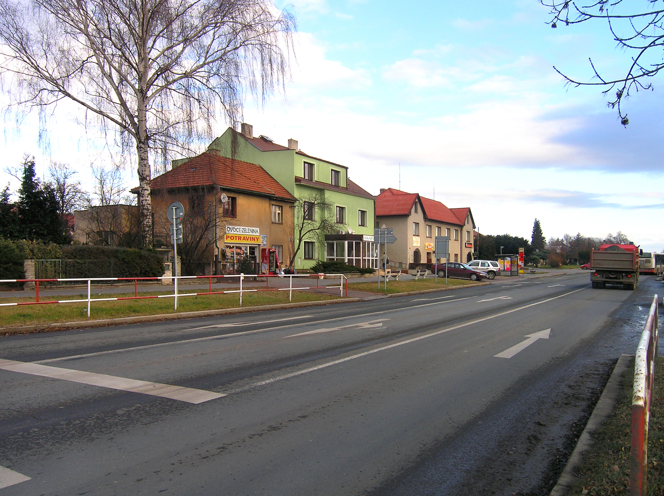 Mladoboleslavská street in Kbely, Prague